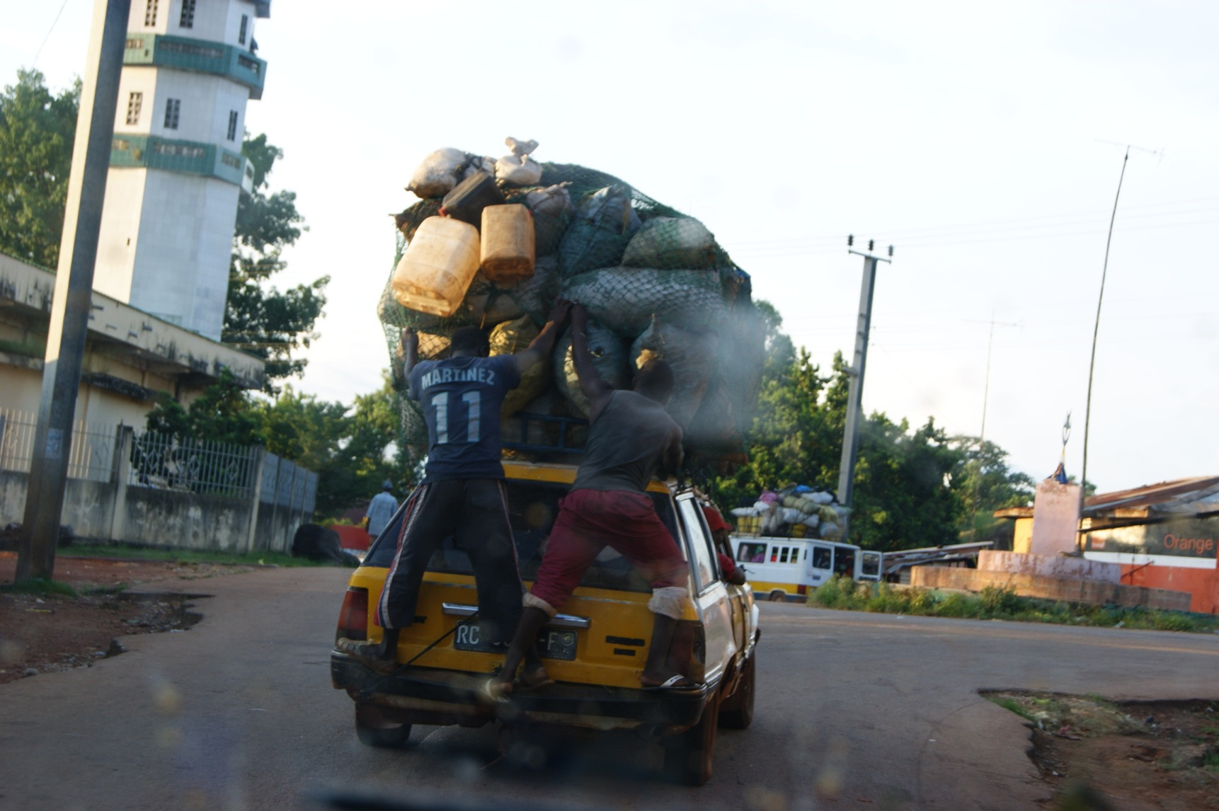 a typical sight in west Africa. This photo was taken crossing the boarder from Sierra Leone to Guinea